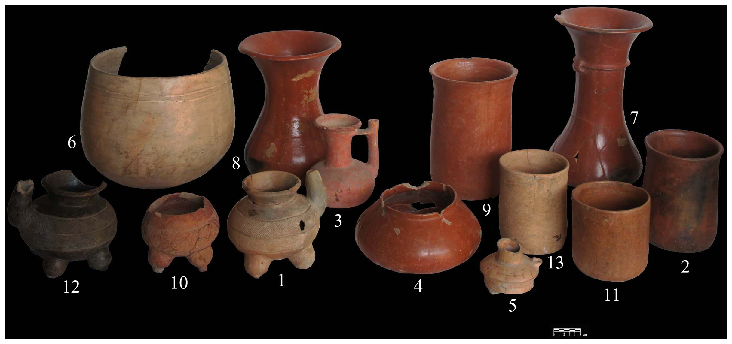 ceramic vessels from Chiapa de Corzo